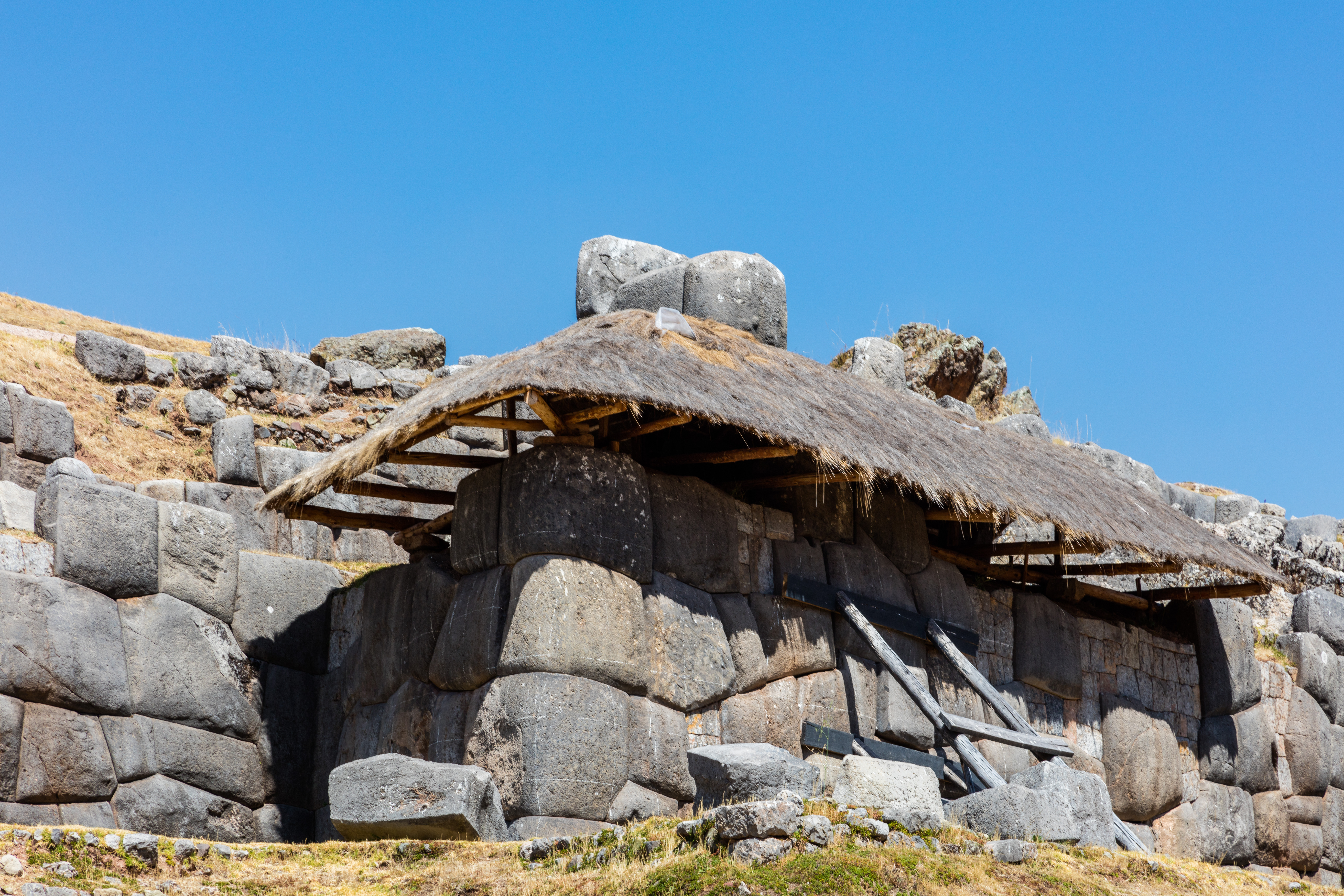 Sacsayhuamán, Cusco, Peru